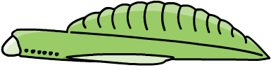 This is an animal called Yunnanozoon. I made this in Flash.